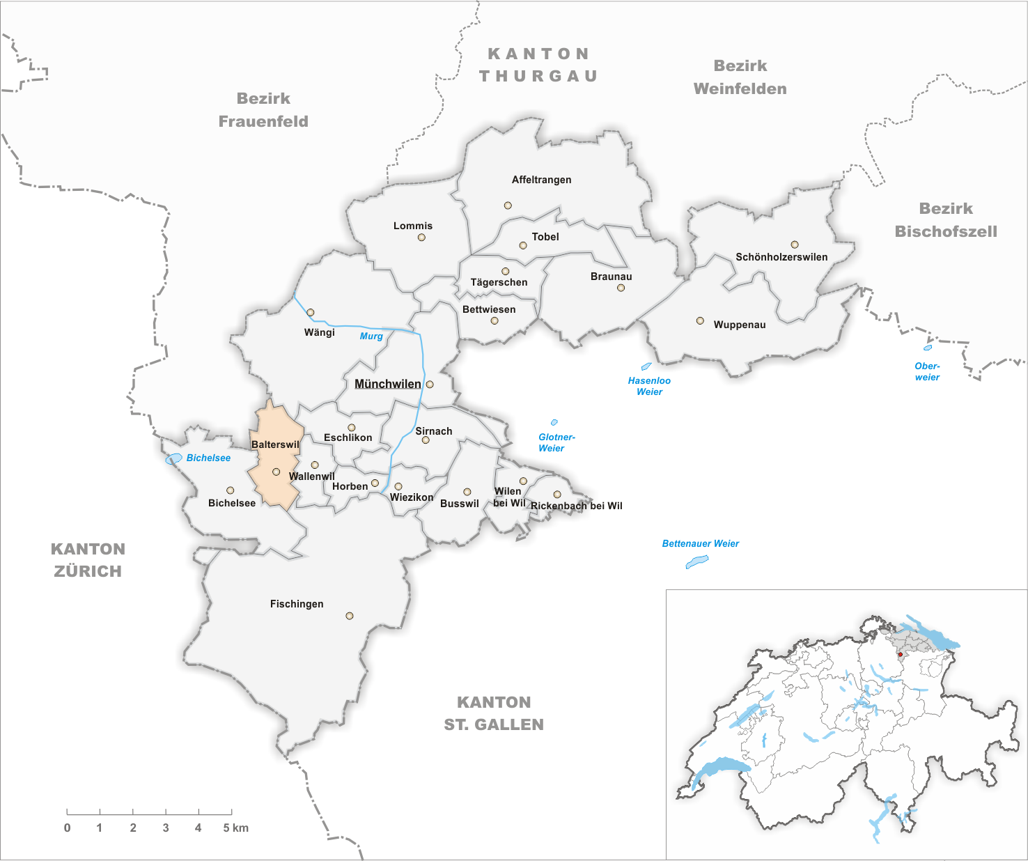 Municipality Balterswil